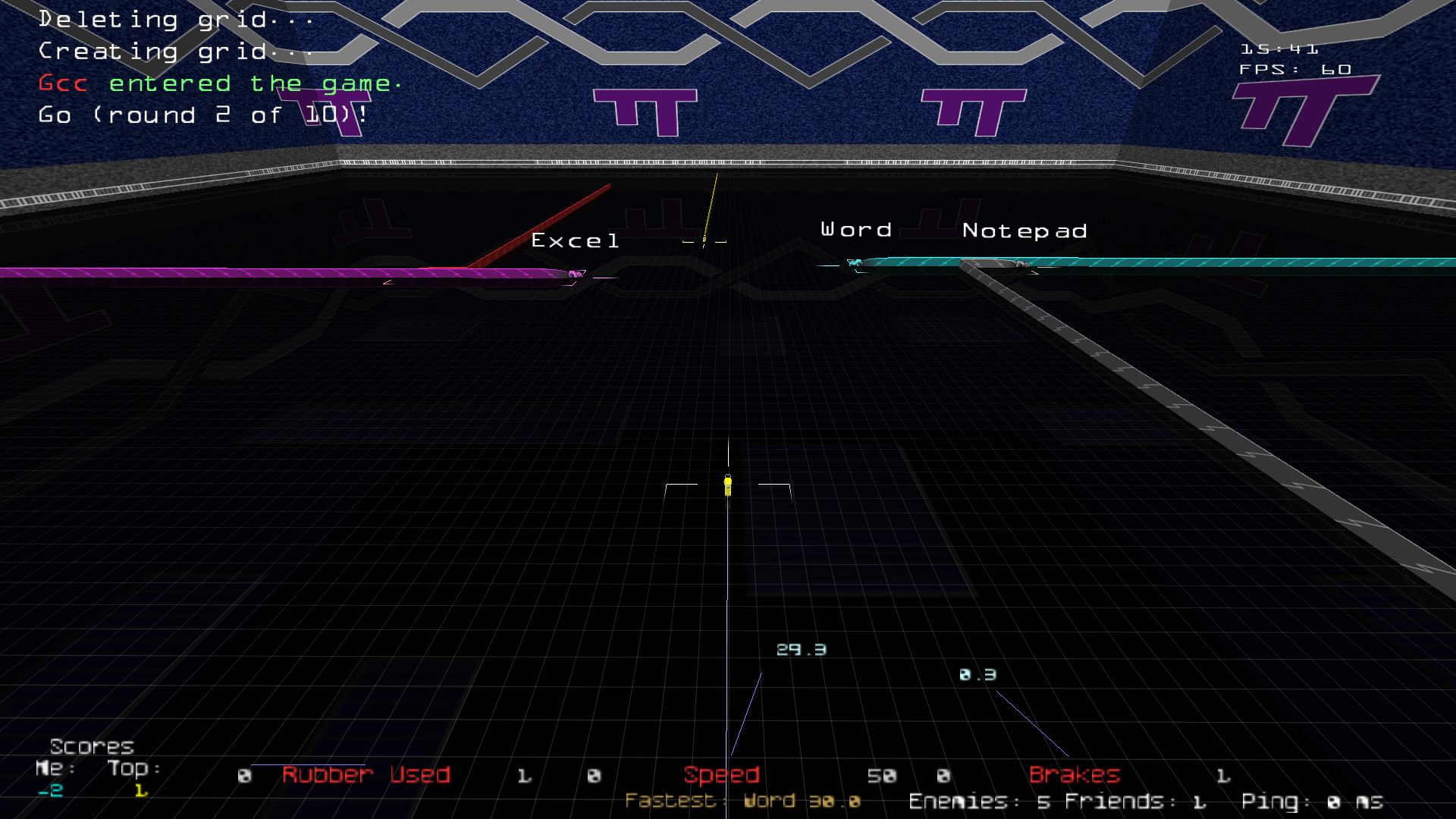 Armagetron.